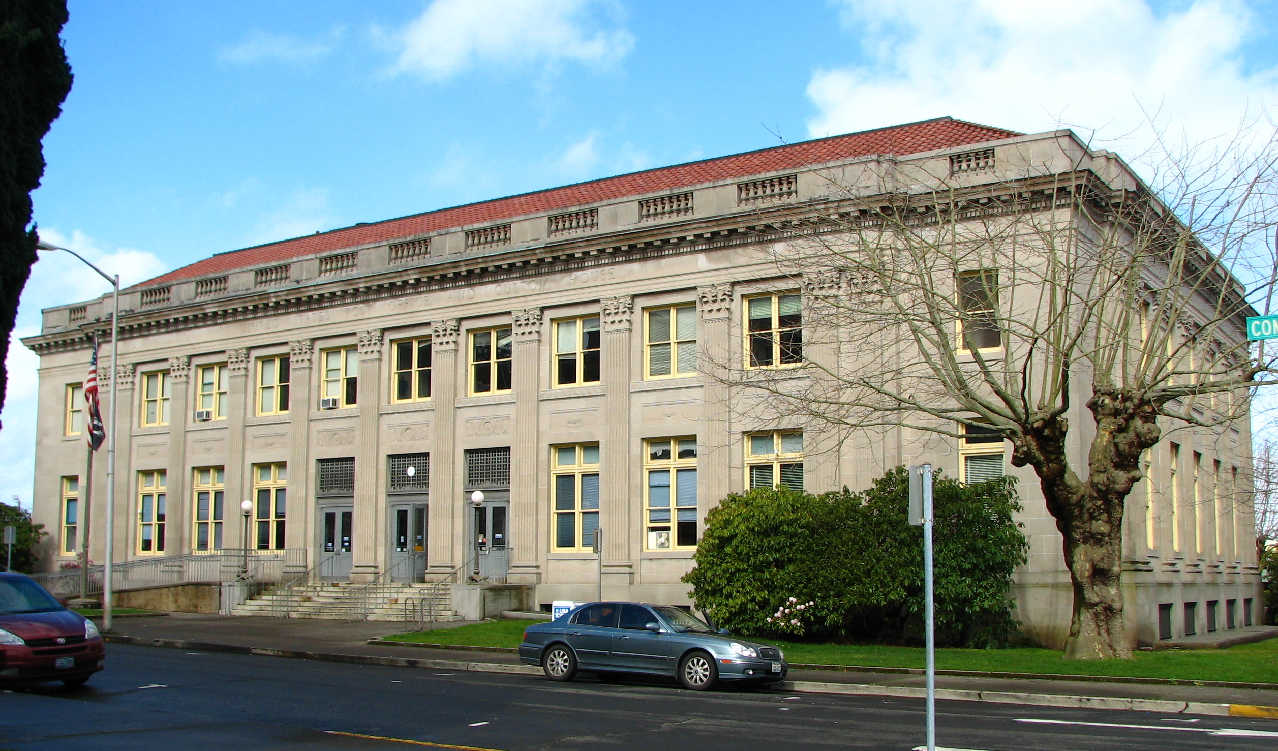 The historic United States Post Office and Custom House (built 1933), located at 750 Commercial Street in Astoria, Oregon, United States, is listed on the US National Register of Historic Places.